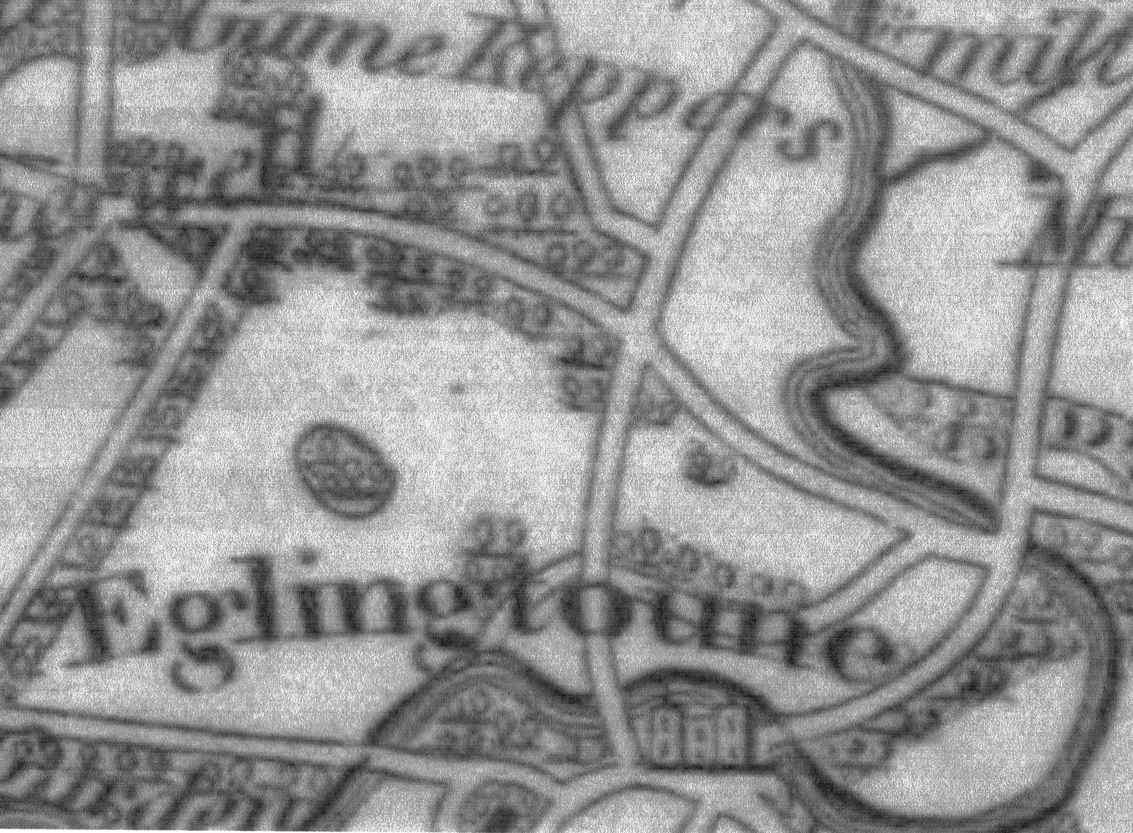 A map of Eglintoune Castle, Ayrshire, Scotland.